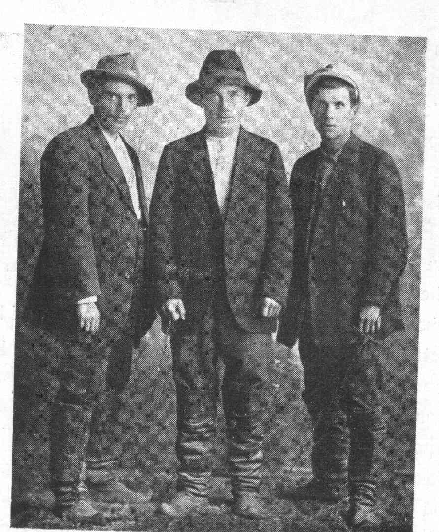 Finnish activists from Tornio. From left: Mr Valfrid Ellilä, Mr Arvi Aikomus, Mr Vilho Jääskeläinen